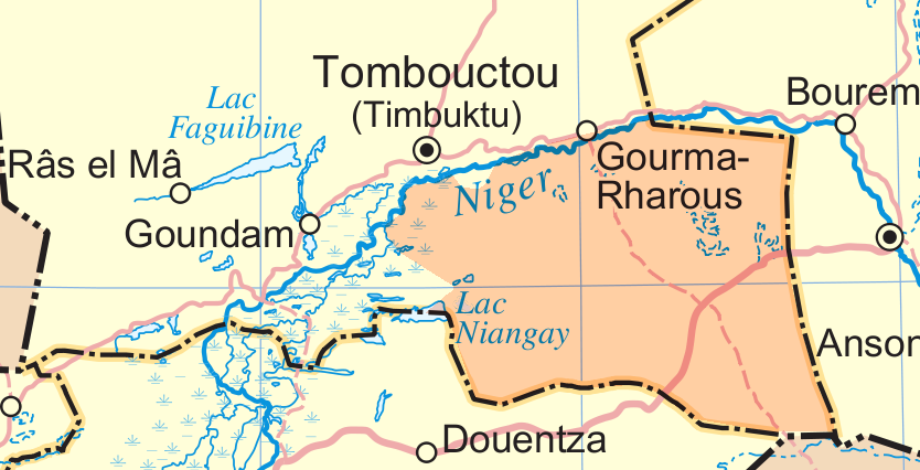 Map of Gourma_Rharous cercle of Tombouctou region in Mali. Created by Rarelibra 15:33, 18 September 2006 (UTC) for public domain use, using MapInfo Professional v8.5 and various mapping resources.